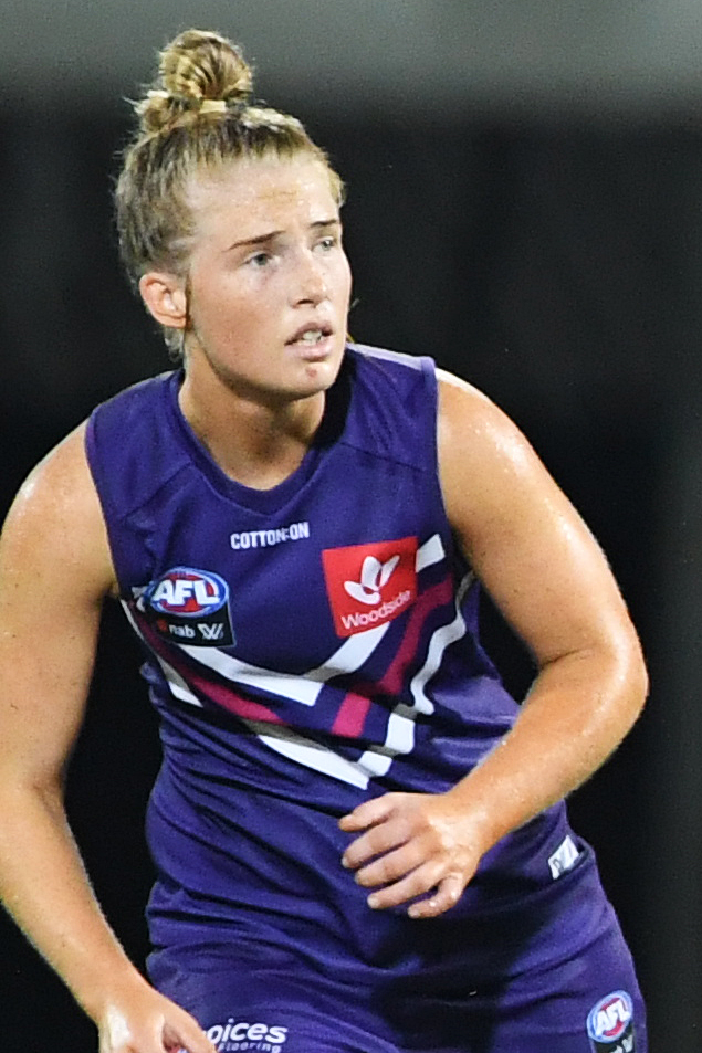 Jasmin Stewart of Fremantle during the 2019 AFL Women's practice match between the Adelaide Football Club and Fremantle Football Club at TIO Stadium on January 19, 2019 in Darwin Australia.